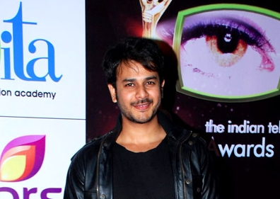 Jay Soni at the red carpet of ITA awards 2014